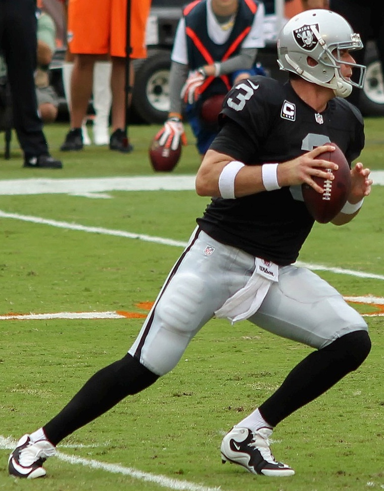 Oakland's Carson Palmer drops back for a pass.